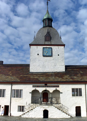 Austråttborgen (en: The Manor of Austrått), built 1656, in Ørland, Norway